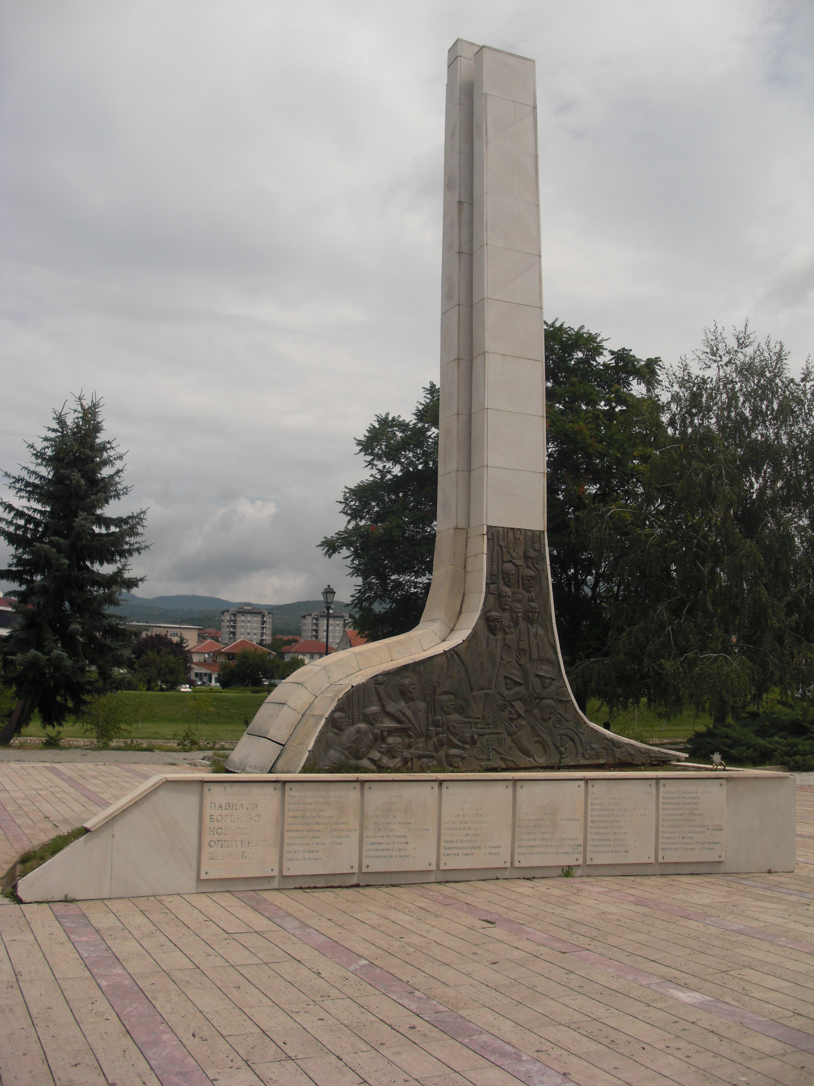 Monument in Delcevo, Macedonia, dedicated to the fallen heroes of the People's Liberation War (WWII)